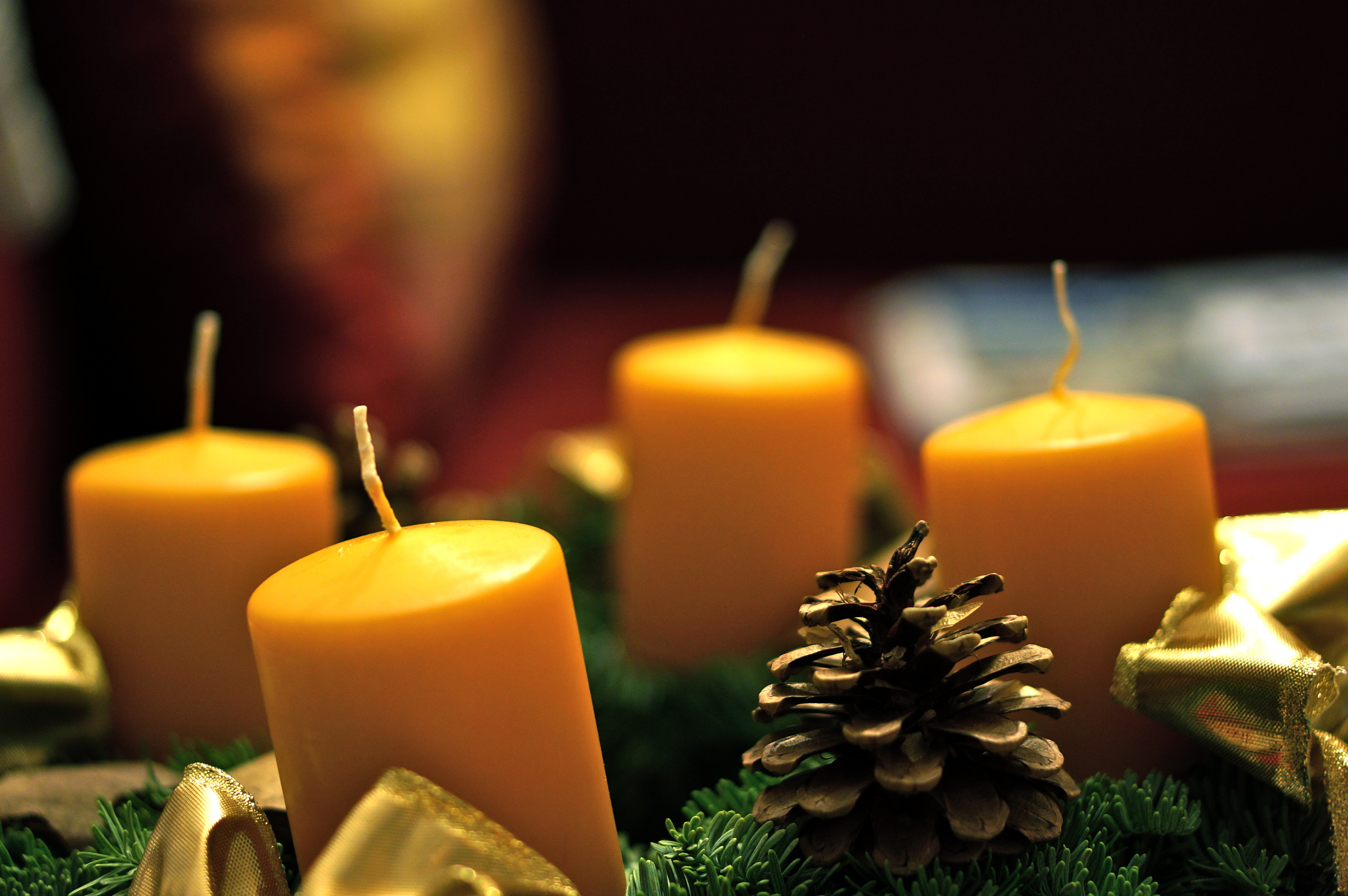 Unlit advent wreath, Poertschach on Lake Woerth, district Klagenfurt Land, Carinthia / Austria / EU